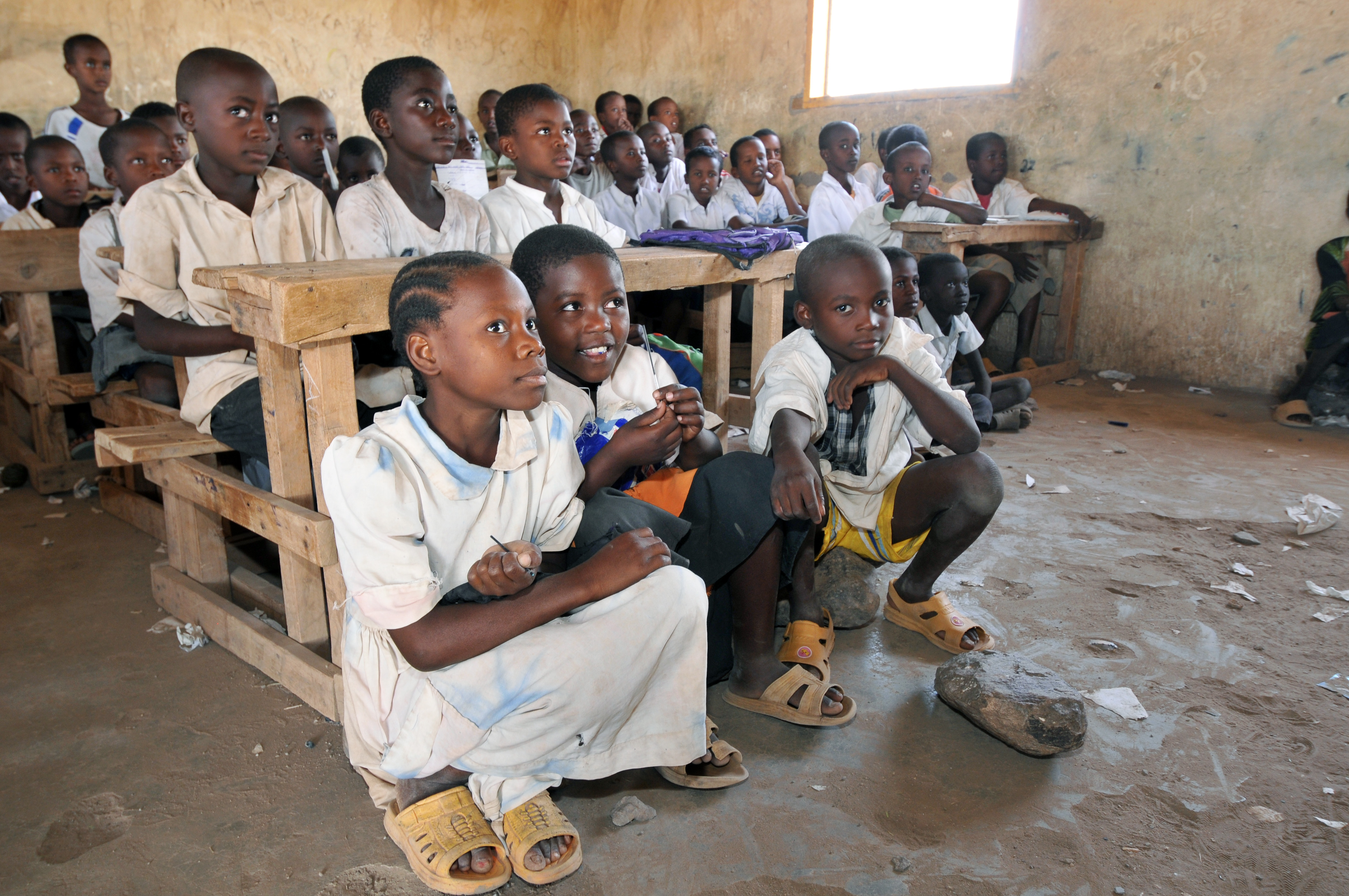 (2011 Education for All Global Monitoring Report) -School children in Kakuma refugee camp, KenyaRomână: Raportul de monitorizare „Educație pentru toți”, 2011: Elevi în tabăra de refugiați din Kakuma, Kenya